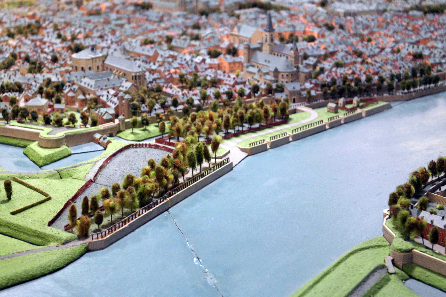 Detail of the copy of the French Maquette of Maastricht on display in Centre Céramique, Maastricht, the Netherlands. The copy was made in 1974-1982, based on the mid-18th-century scale model made for King Louis XV of France. This section shows the Jekerkwartier section along the river Meuse and the so-called Boompjes in front of Onze Lieve Vrouwewal, which later developped into Stadspark, Maastricht's main park.